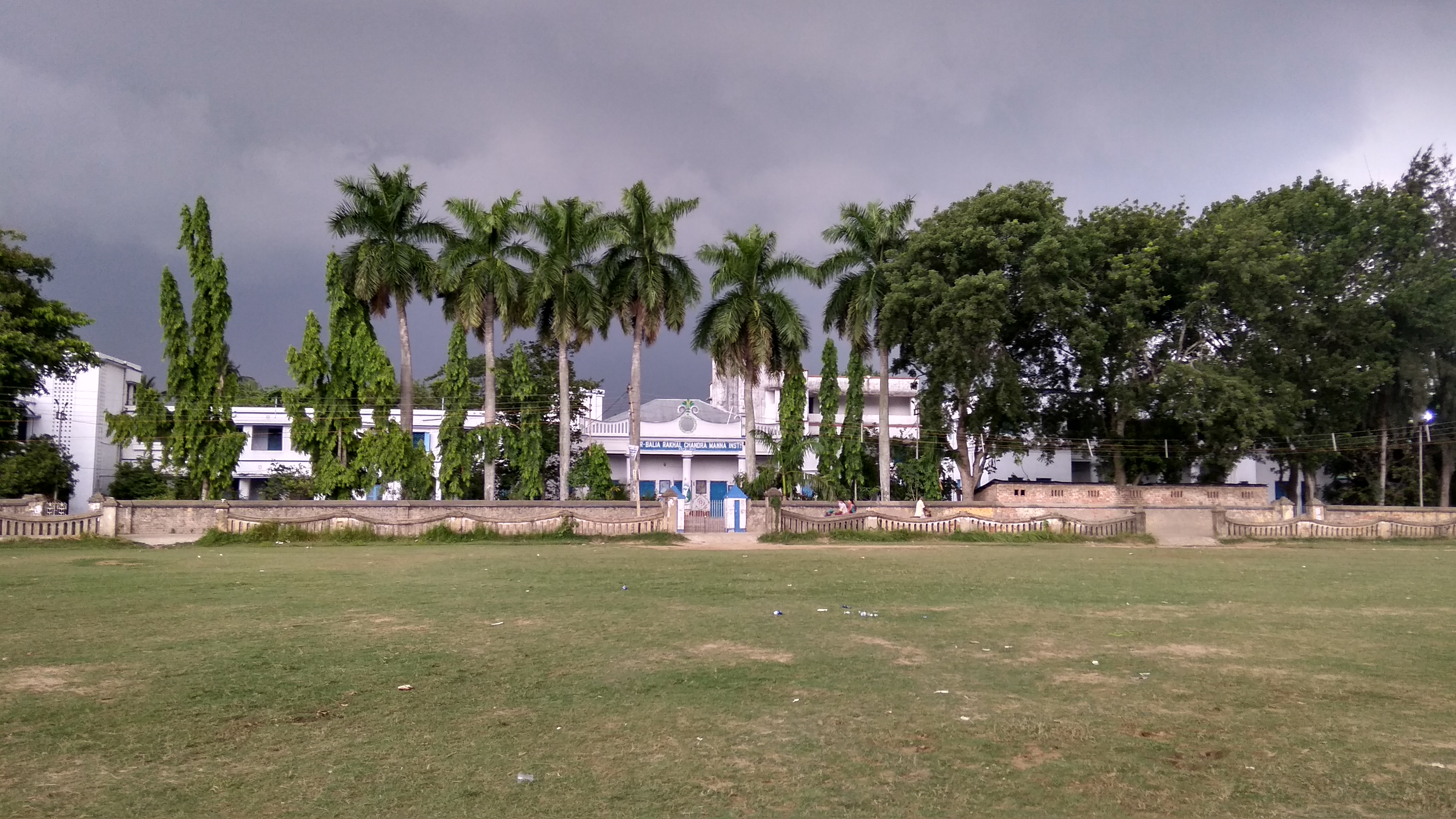 Image of Garbalia Rakhal Chandra Manna Insitution's playground and itself in the background captured before a "kalbaishakhi" storm, from the other side of the ground.